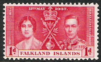 Falkland Islands 1d Red Coronation Stamp (1937) Scanned from personal collection Jeff Knaggs 10:32, 29 Nov 2004 (UTC)